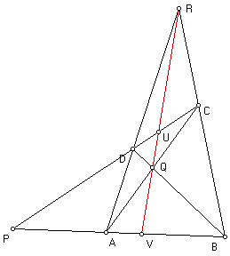 A complete quadrilateral ABCD with diagonal points PQR - UV divides QR harmonicly.